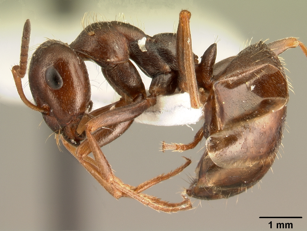 Profile view of ant Proformica nasuta specimen casent0101912.